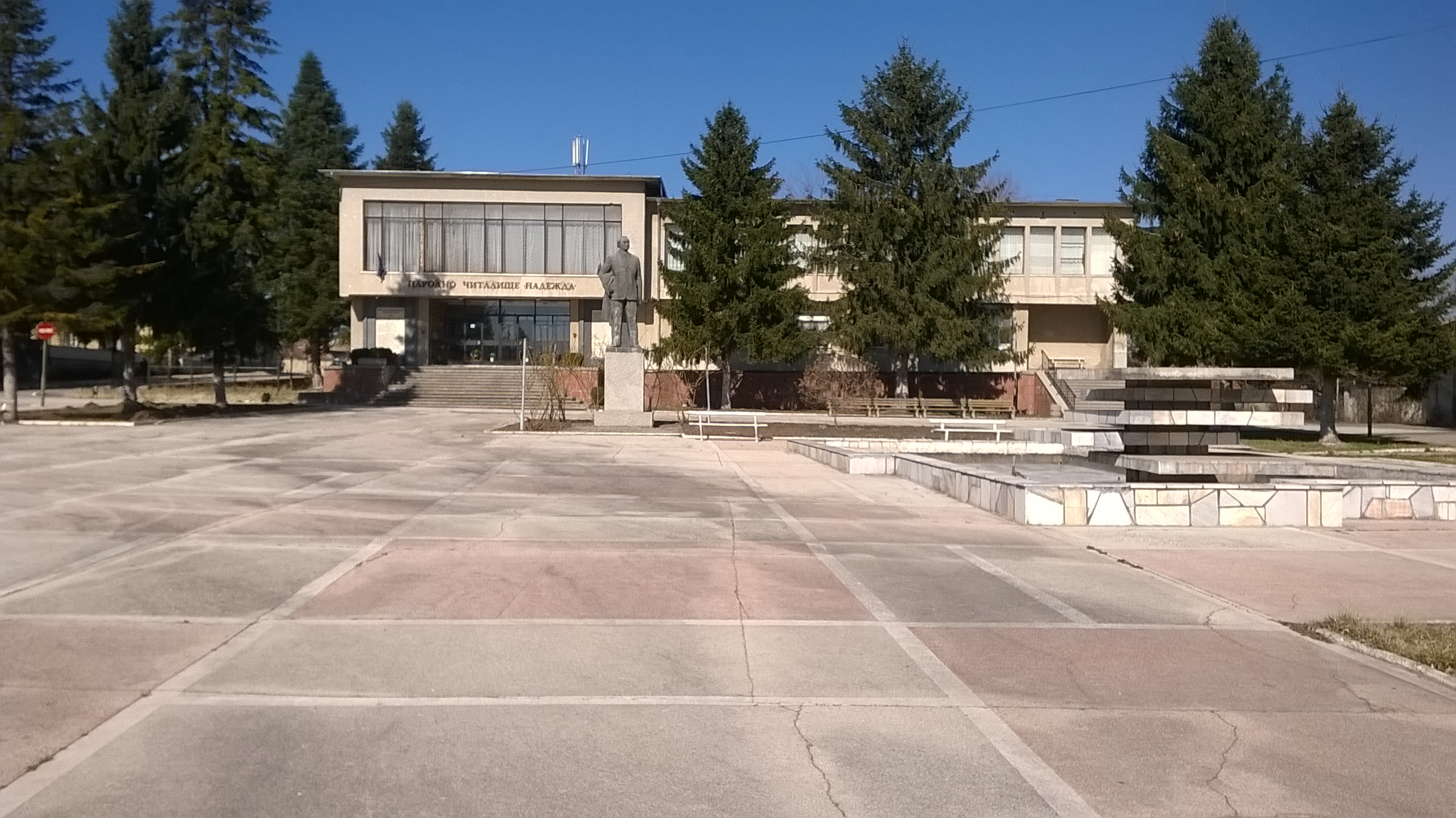 The community center"Nadejda 1883" in the Bulgarian village Polski Senovetz